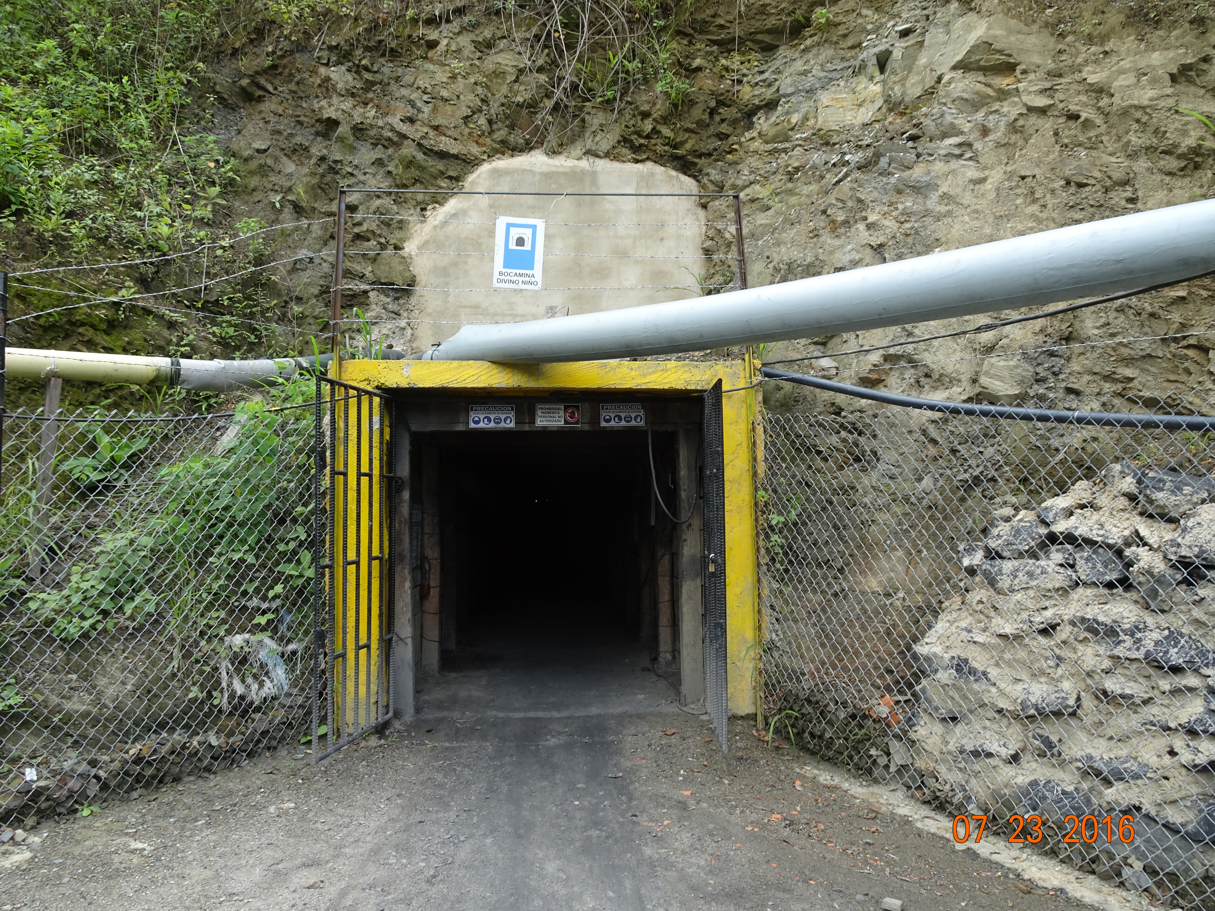 La Pita Portal 2